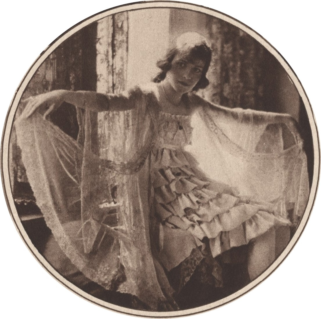 Adele Astaire in costume for the Broadway musical 'The Passing Show of 1918', as depicted in the New York Times newspaper (August 18, 1918)